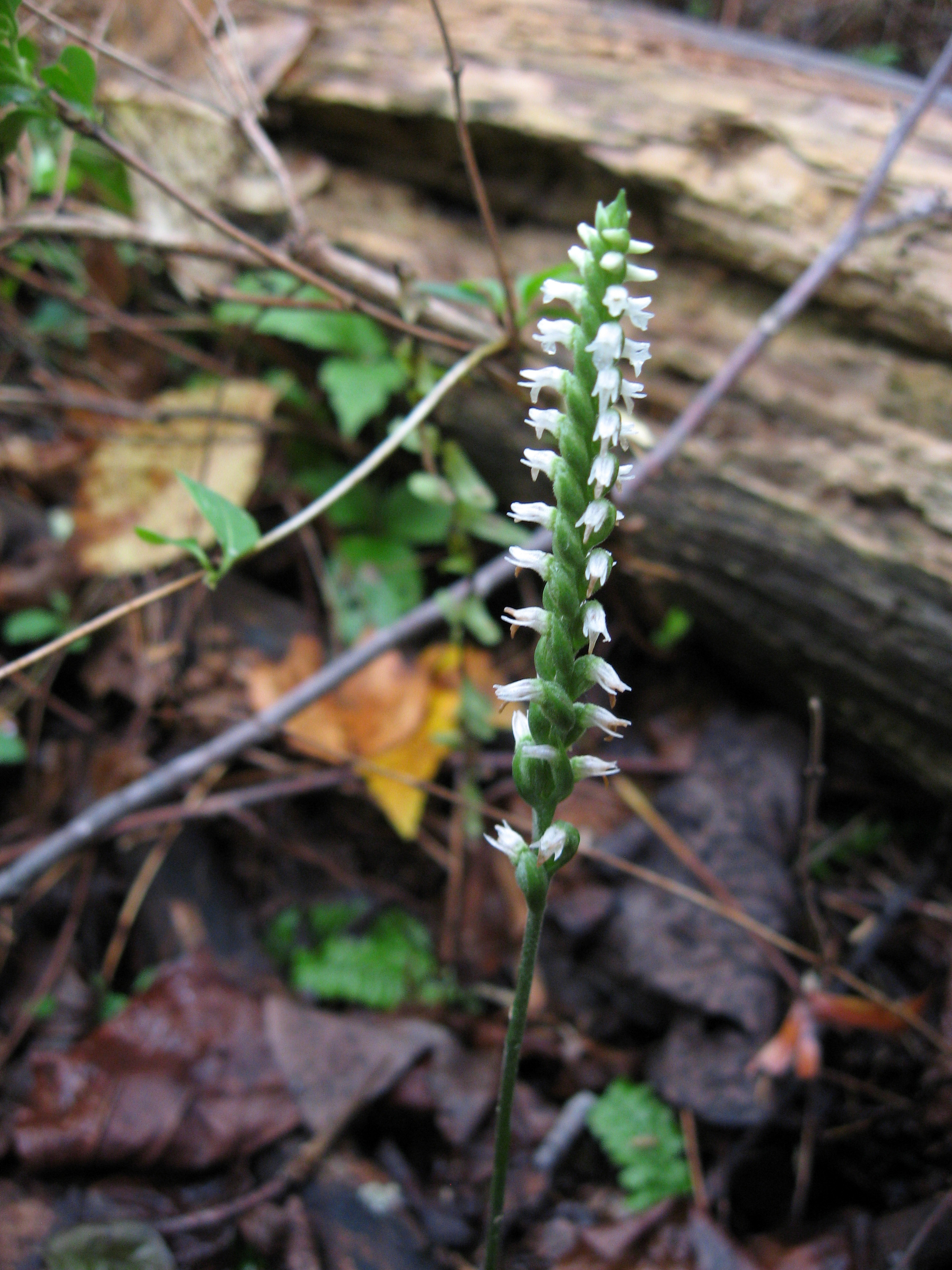 Spiranthes ovalis, forest at headwaters of Smith Creek, Land Between the Lakes National Recreation Area, Lyon County, Kentucky.